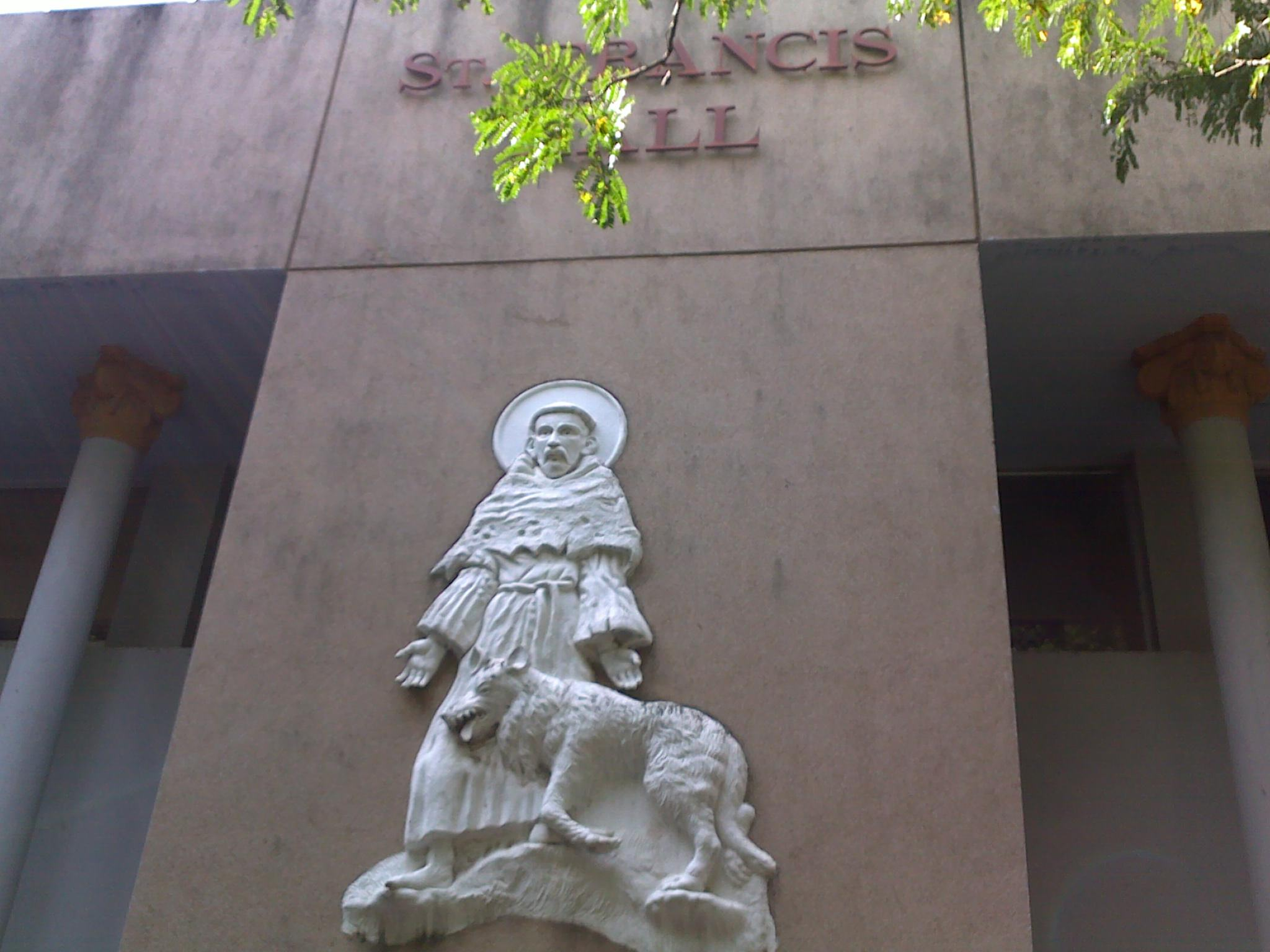 Francis Hall in Stella Marys, Chennai